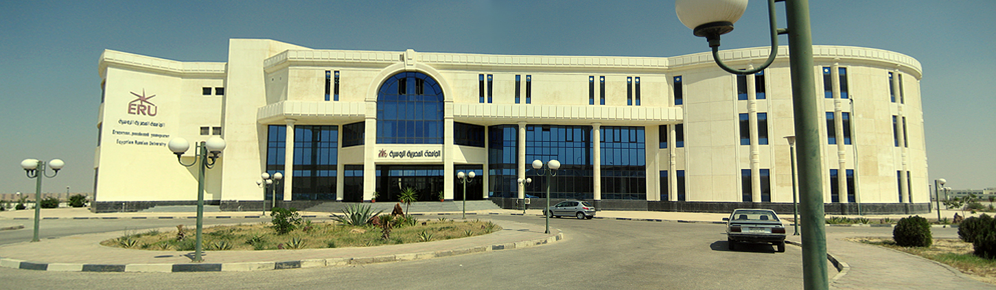 View of the Egyptian Russian University